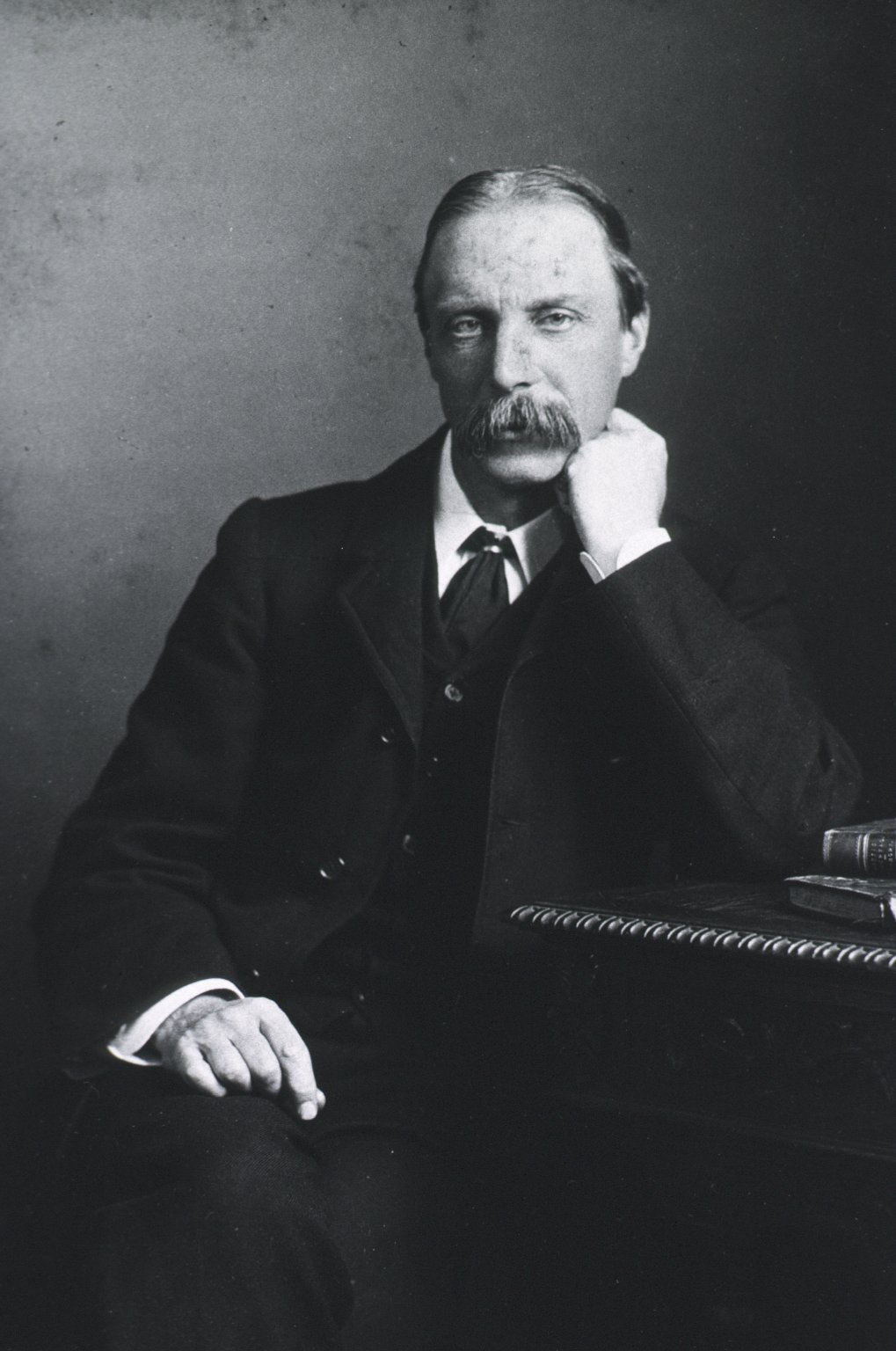 Edward A. Sharpey-Schäfer